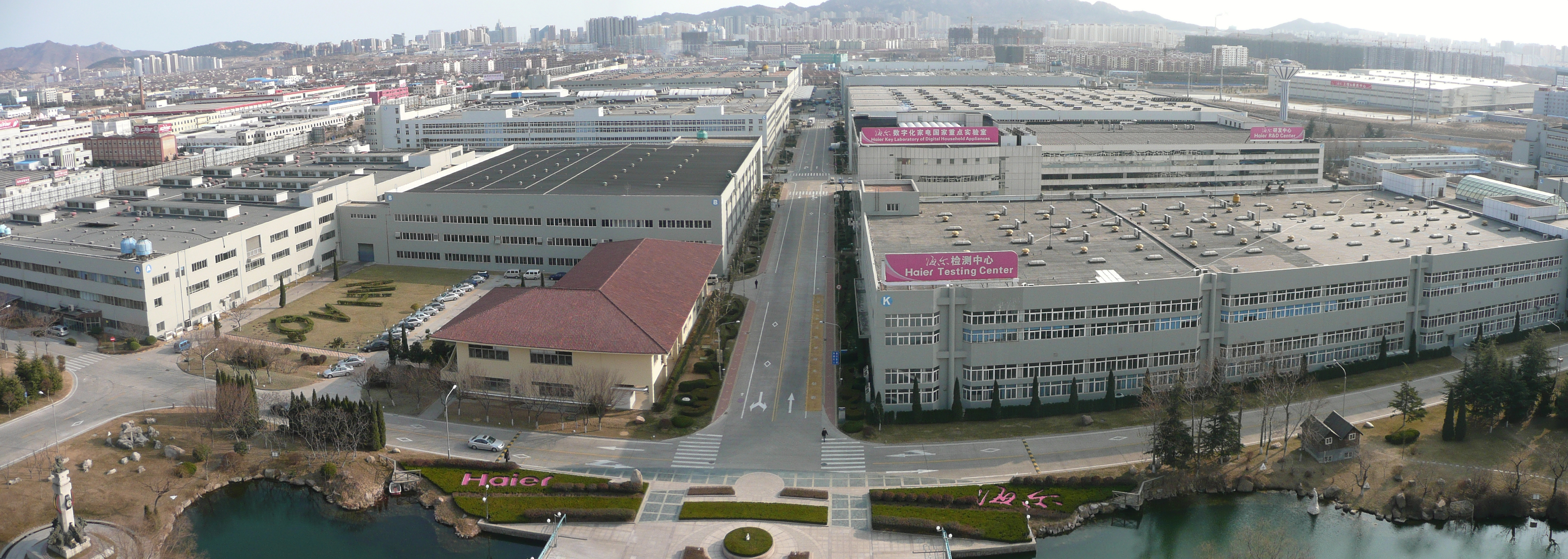 Panoramic view of the Haier Industrial Park in Qingdao